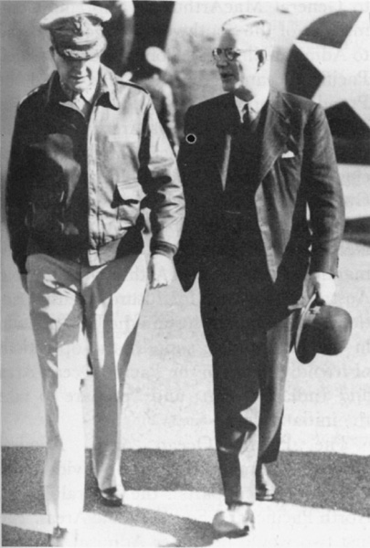 GENERAL MACARTHUR ARRIVING IN SYDNEY is met by the Austrailian Prime Minister, Mr. Curtin.